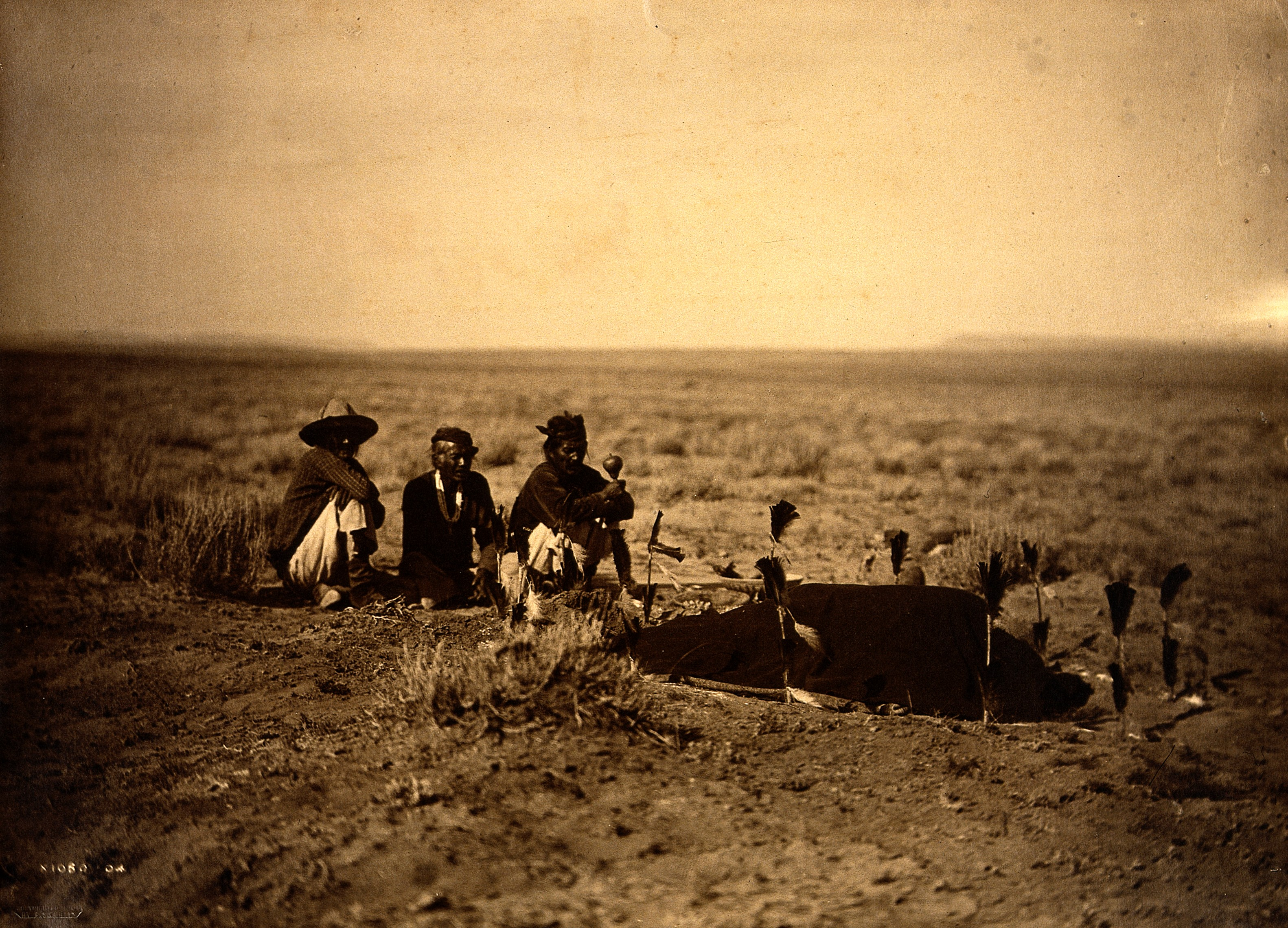 A 'Yebichai Sweat' Navajo medicine ceremony. Iconographic Collections Keywords: Tribe; Spirits; Indians, North American; Tribal; American Indian; Edward S. Curtis; Anthropology; Ethnography; Shaman; Population Groups; Native